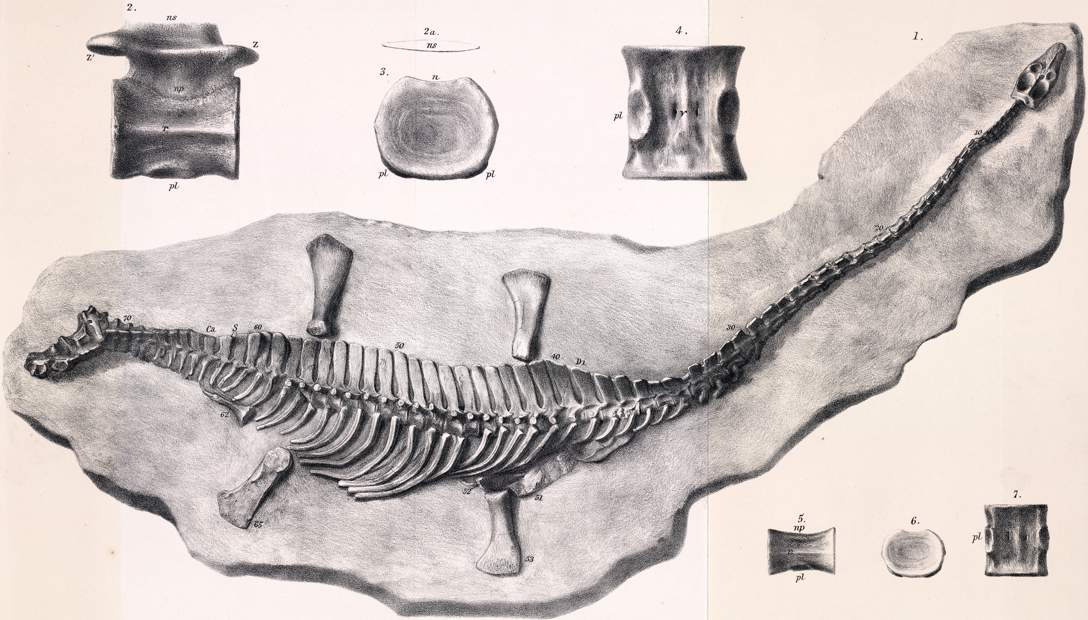 Plesiosaurus homalospondylus. Fig. 1. Skeleton, about 1-10th nat. size. Fig. 2. Thirteenth cervical vertebra of ditto, side view., nat. size. 2a. lb., section of neural spine, ib. Fig. 3. Ib., posterior surface of centrum, ib. Fig. 4. Fourteenth cervical vertebra, under view, ib. Fig. 5. Centrum of third cervical vertebra, side view, ib. Fig. 6. Ib., posterior surface, ib. Fig. 7. Centrum of eighth cervical vertebra, under view, ib. From the Upper Alum Shale, Lias, Whitby. In the British Museum.